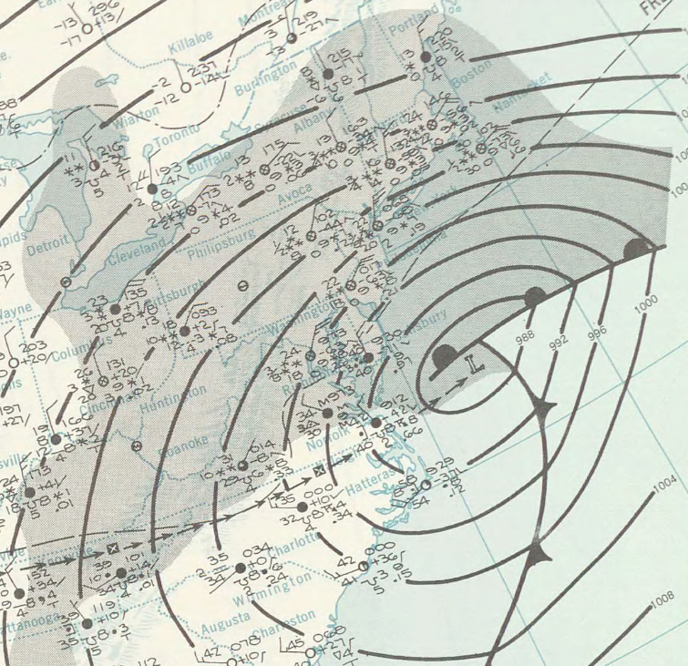 Surface weather analysis of the December 1960 nor'easter on December 12, 1960, while located off the coast of the Northeastern United States.